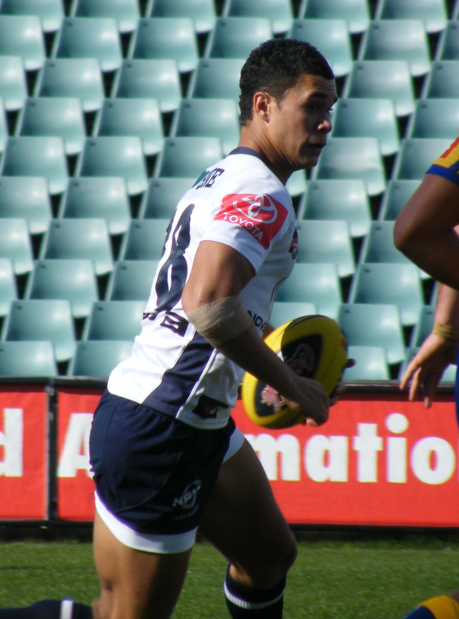 Jharal Yow Yeh of the Brisbane Bronco's RLFC